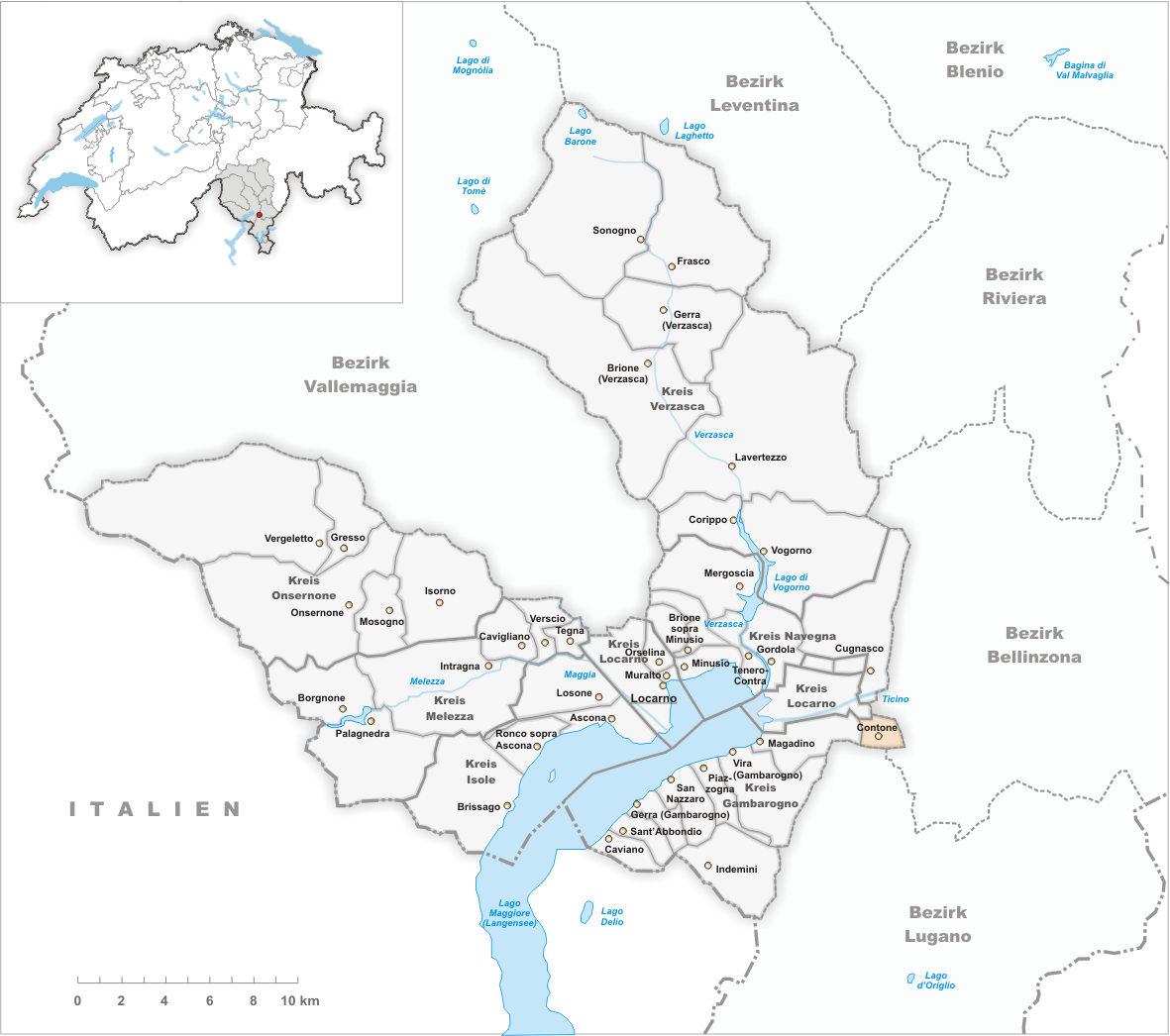 Municipality Contone